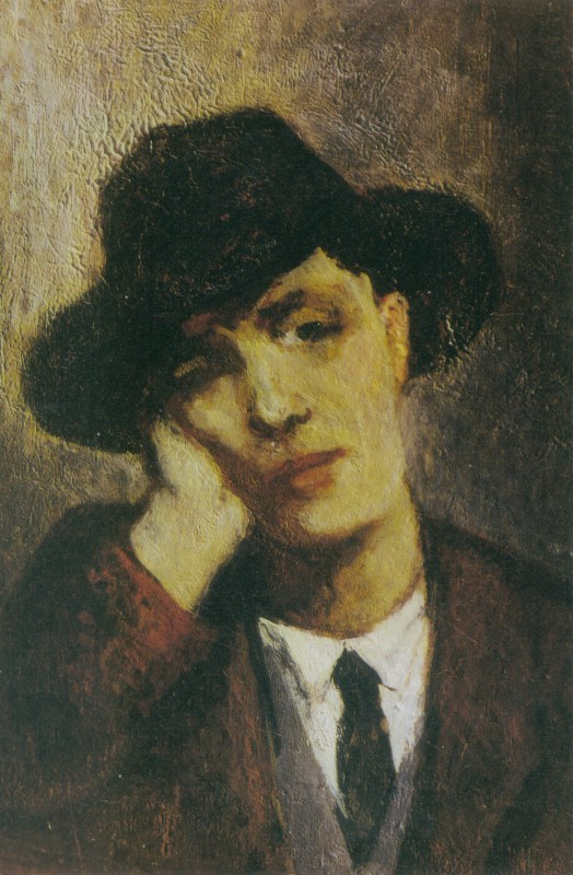 Portrait of Amadeo Modigliani